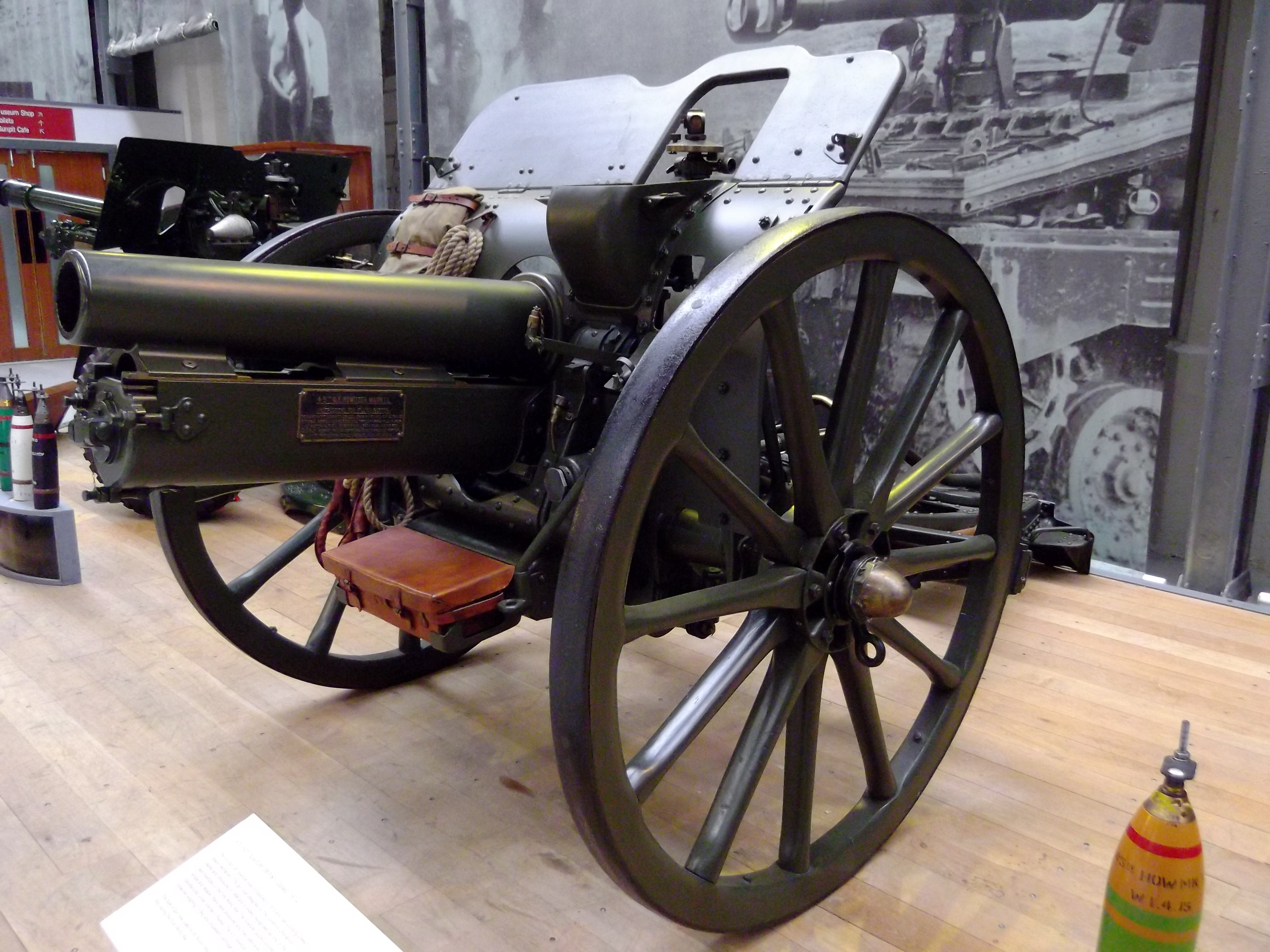 British QF 4.5 inch field howitzer at Royal Artillery Museum Woolwich, London.